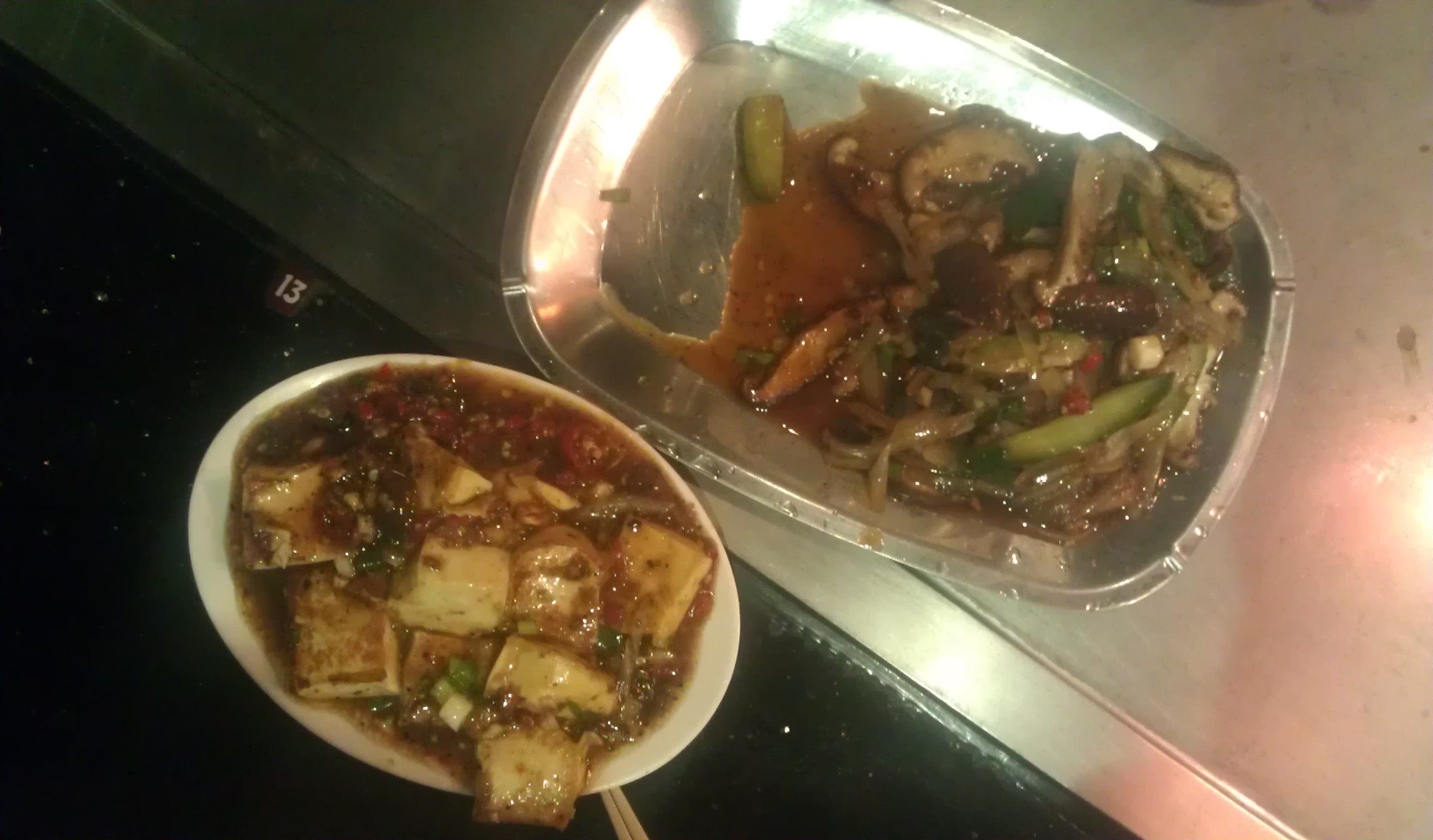 Teppanyaki sold in Taiwan, this set of meal contains mushrooms and tofus.